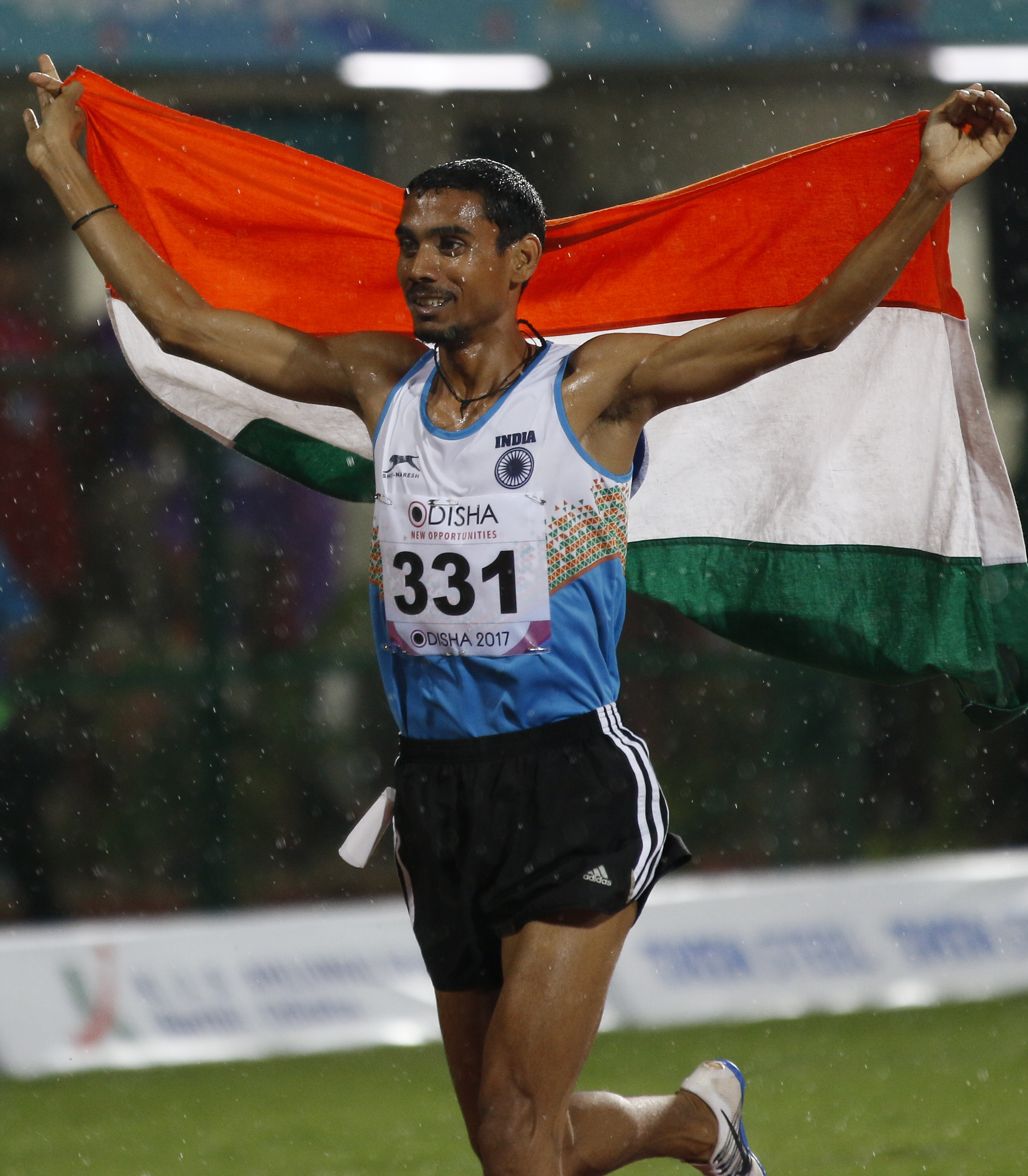 Athletes during 22nd Asian Athletics Championships in Bhubaneswar.